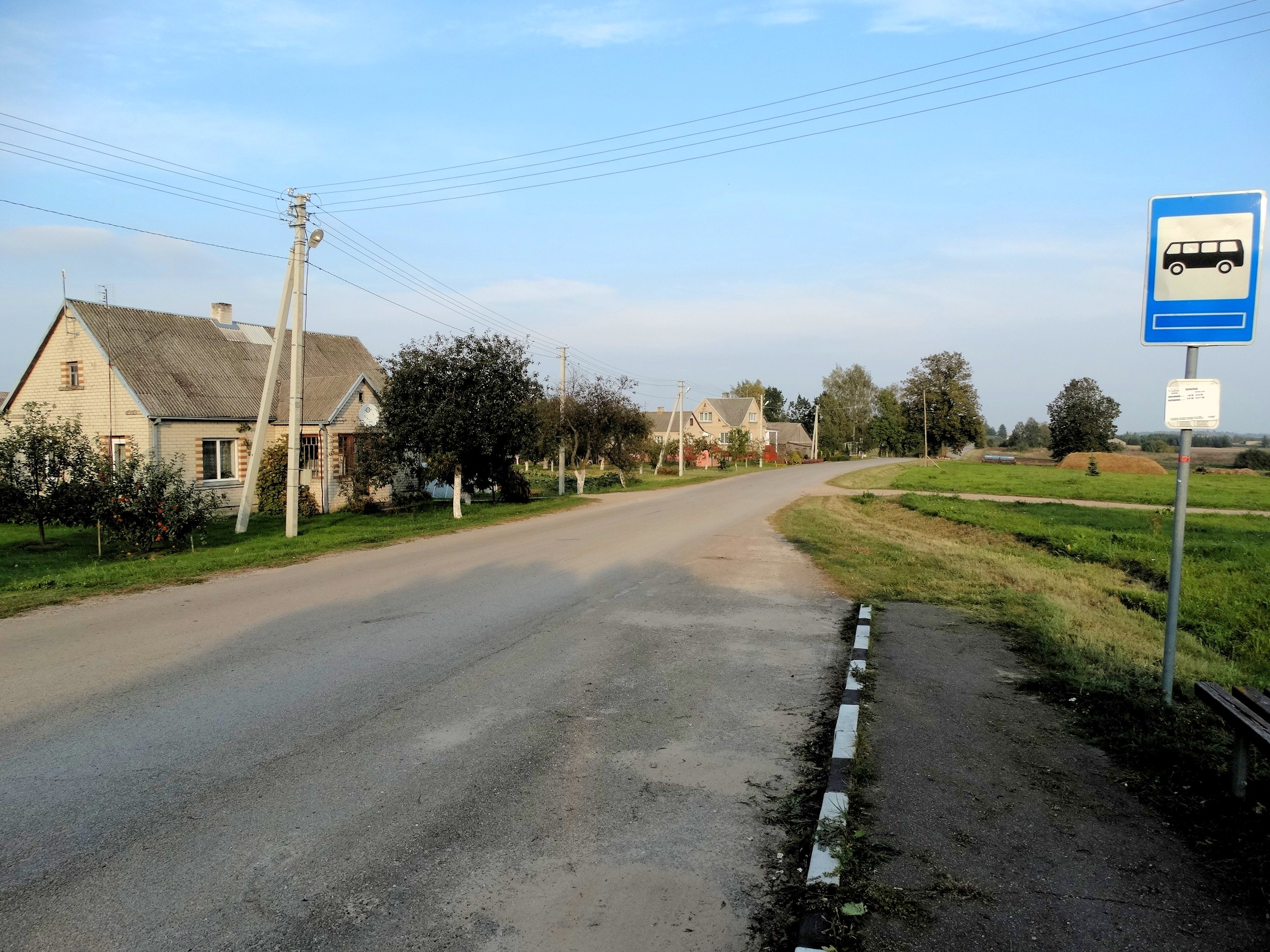 Morkūnai, Kaišiadorys district, Lithuania